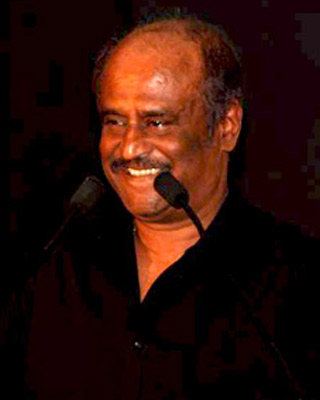 Rajinikanth at the audio release of Enthiran